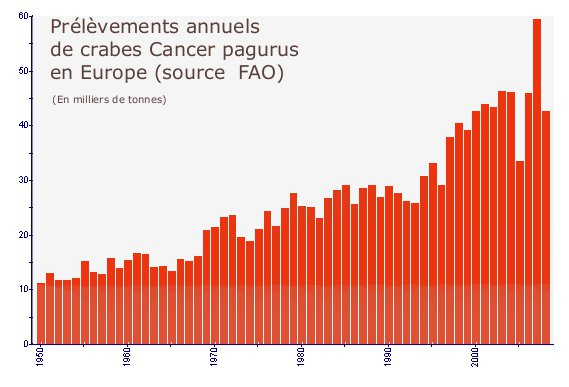 anual globap capture of Cancer pagurus